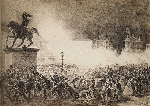 Slaughter of Saint Charles Square in Turin, on September 22nd, 1864.